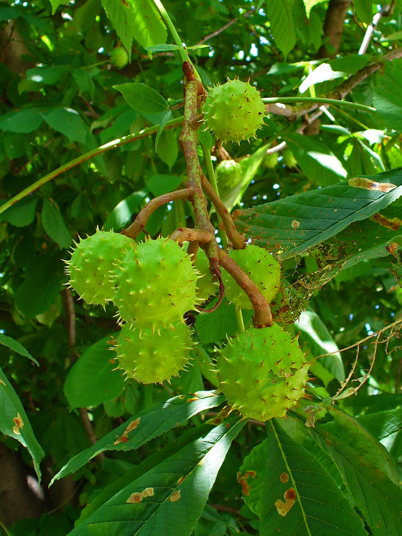 Aesculus hippocastanum, Sapindaceae, Horse-chestnut, Conker Tree, fruits; Karlsruhe, Germany. The fresh, peeled seeds are used in homeopathy as remedy: Aesculus (Aesc.)